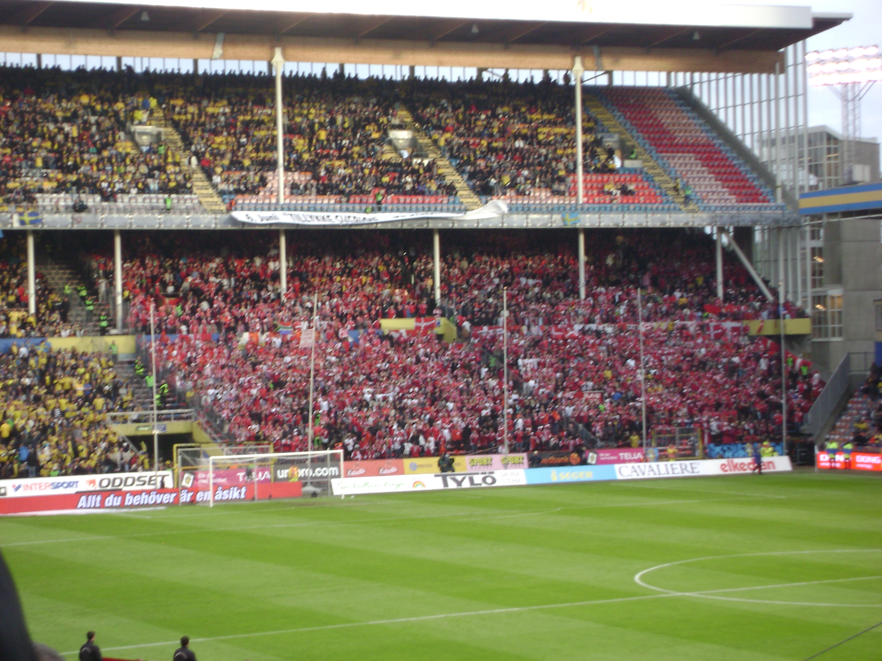 Sweden plays soccer against Denmark in Solna, Sweden on 6 June 2009 (Swedish national day). Denmark wins, 1-0. in a qualifying game for the men's 2010 FIFA World Cup in South Africa.